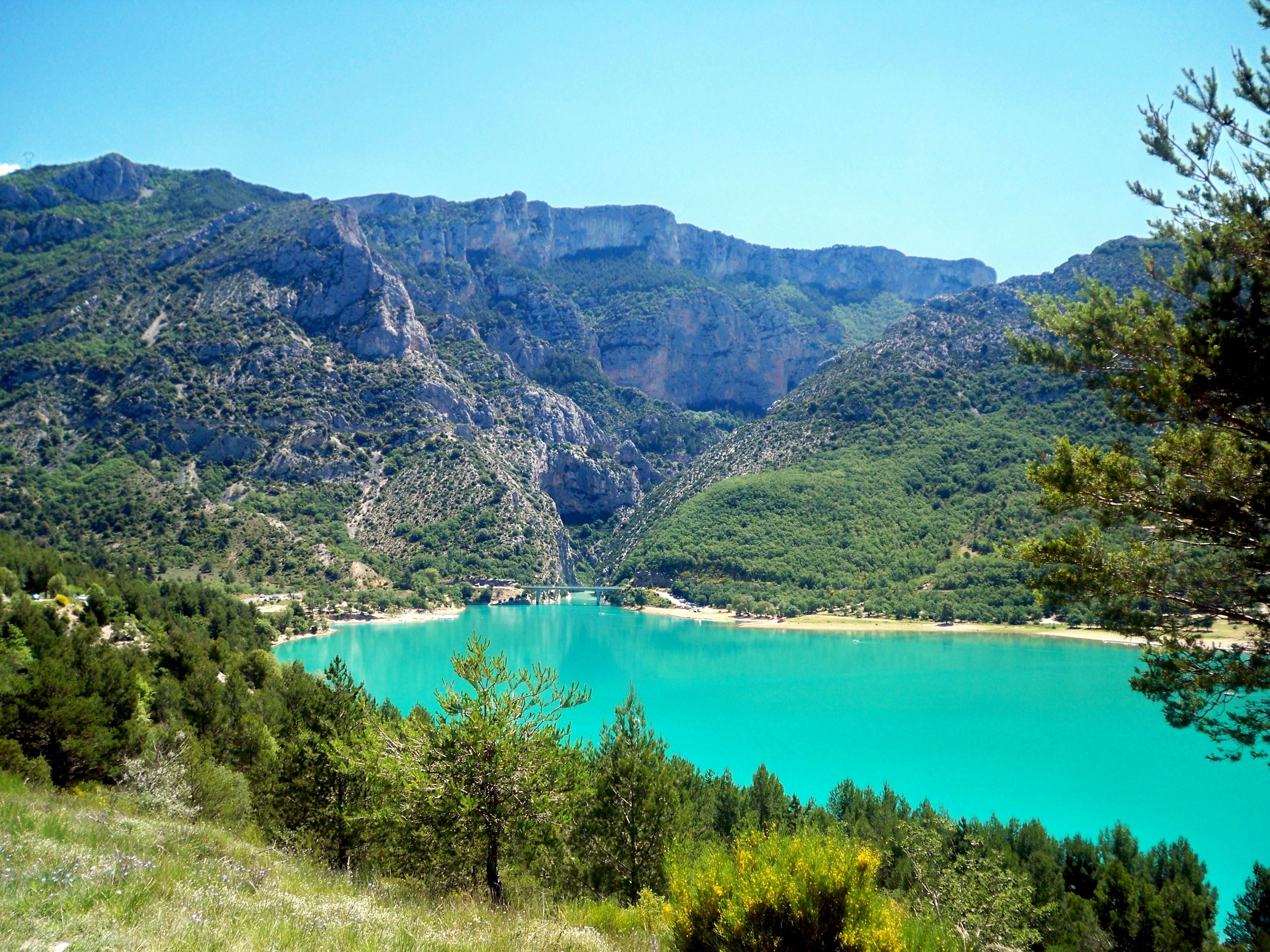 View of the entrance to the Verdon Gorge with Lac de Sainte-Croix in the foreground.